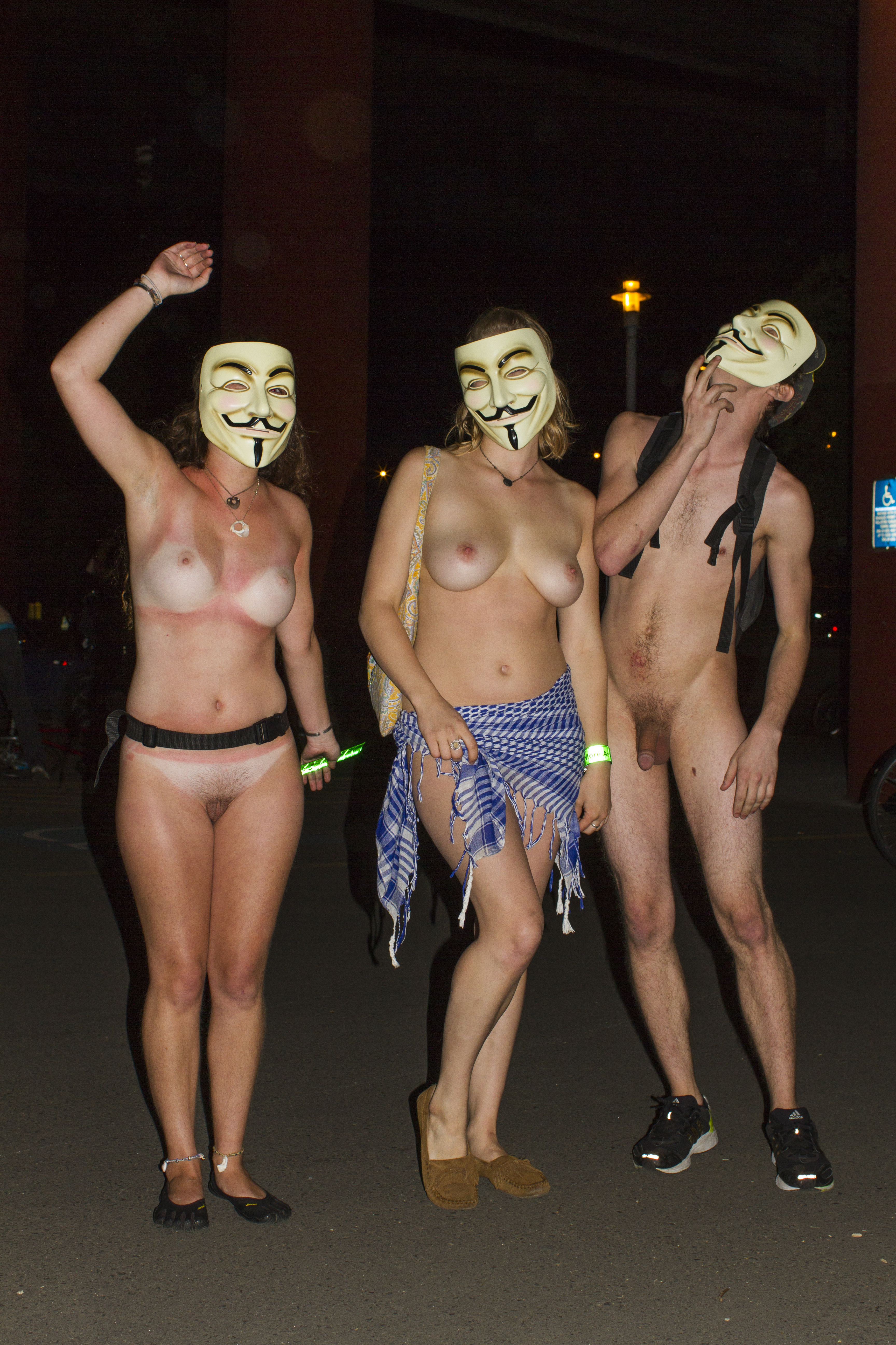 Two women and a man wearing Guy Fawkes masks at 2013 Portland Naked Bike Ride